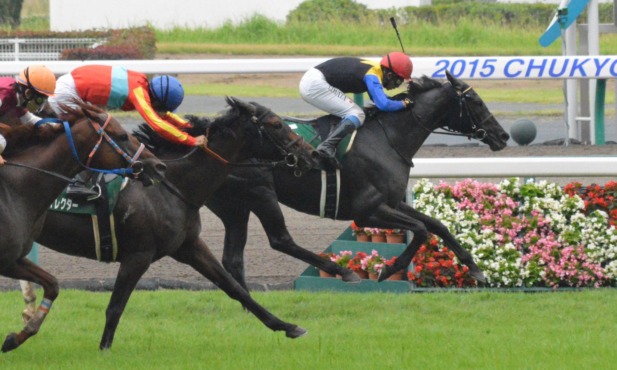 Japanese race horse Uliuli at Chukyo racecourse.